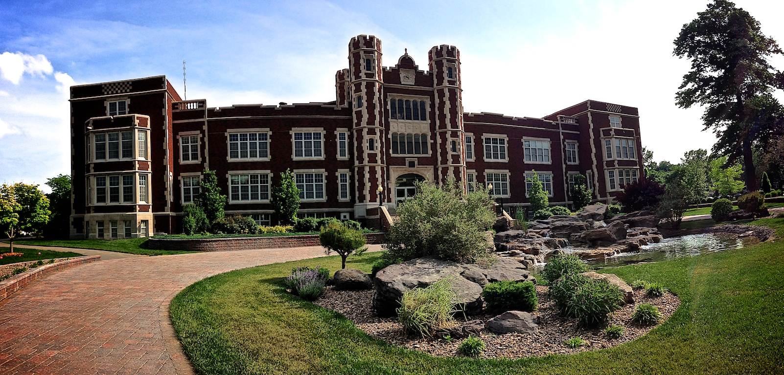 Pioneer Hall, the main administrative building at Kansas Wesleyan University in Salina, Kansas